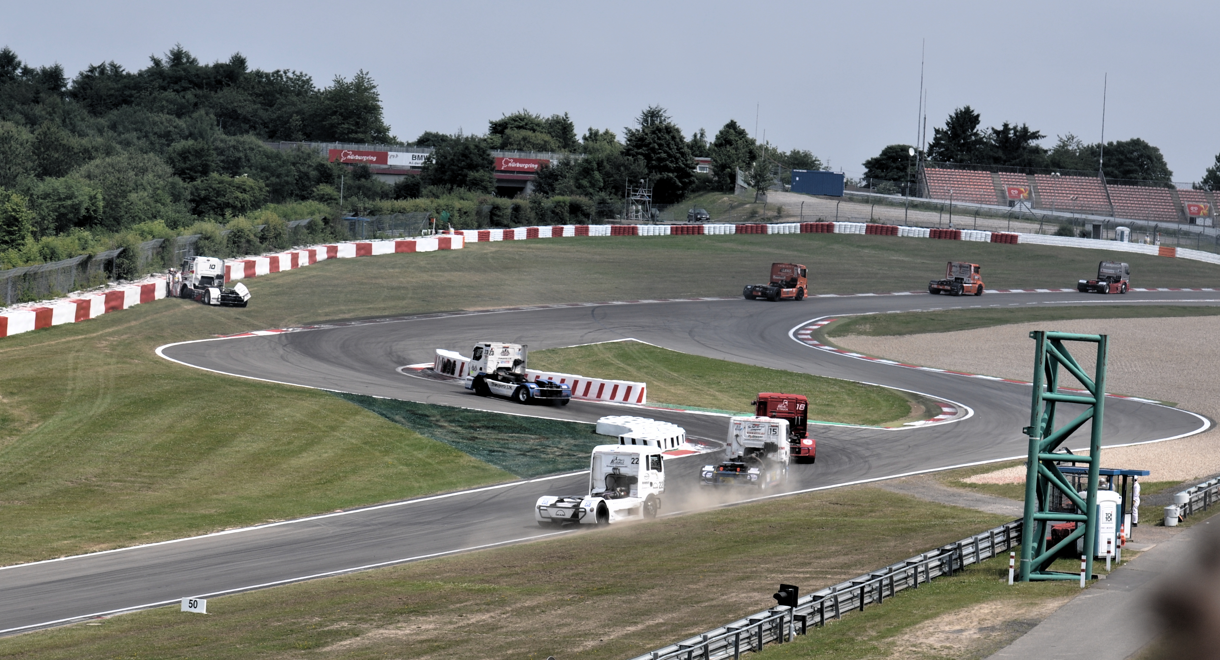 International ADAC Truck Racing Grand Prix, Nürburgring, Germany; MAN Cleaning truck